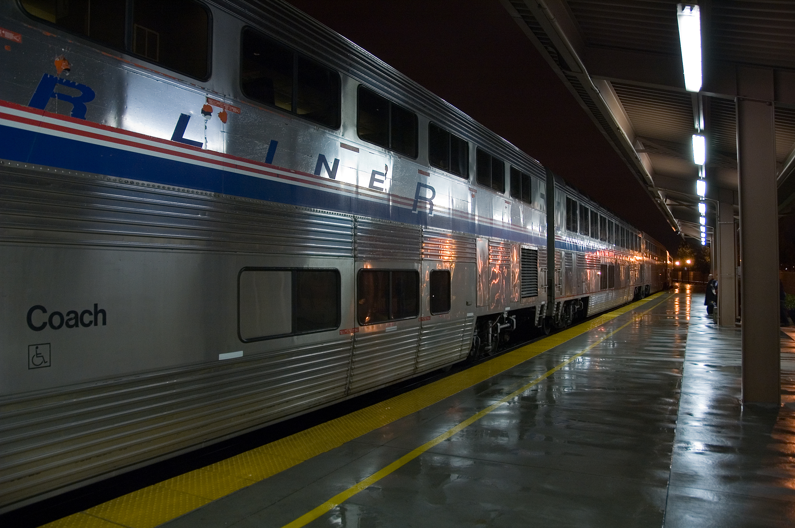 14, the Coast Starlight, San Jose station Wikipedia